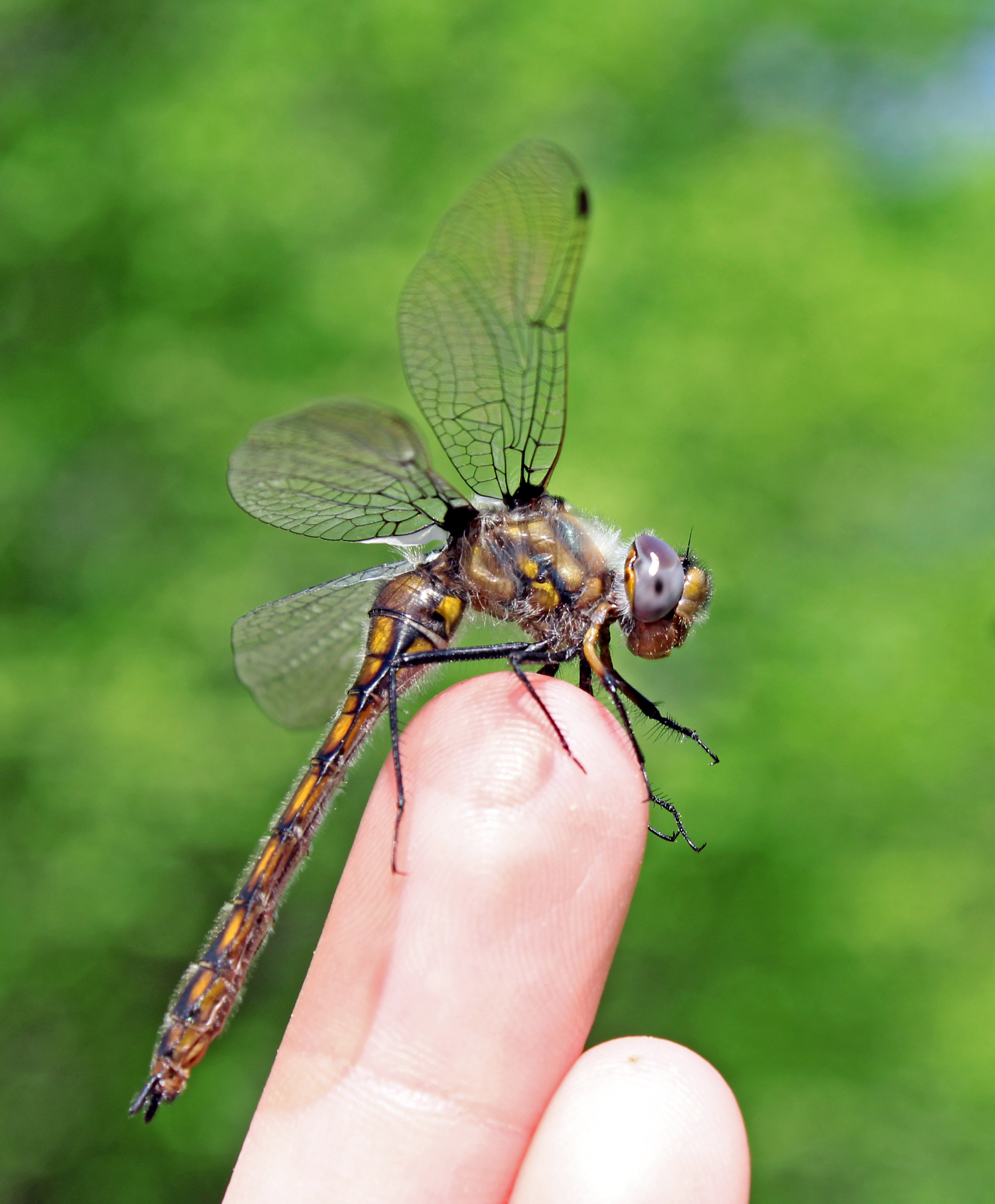 Epitheca canis female